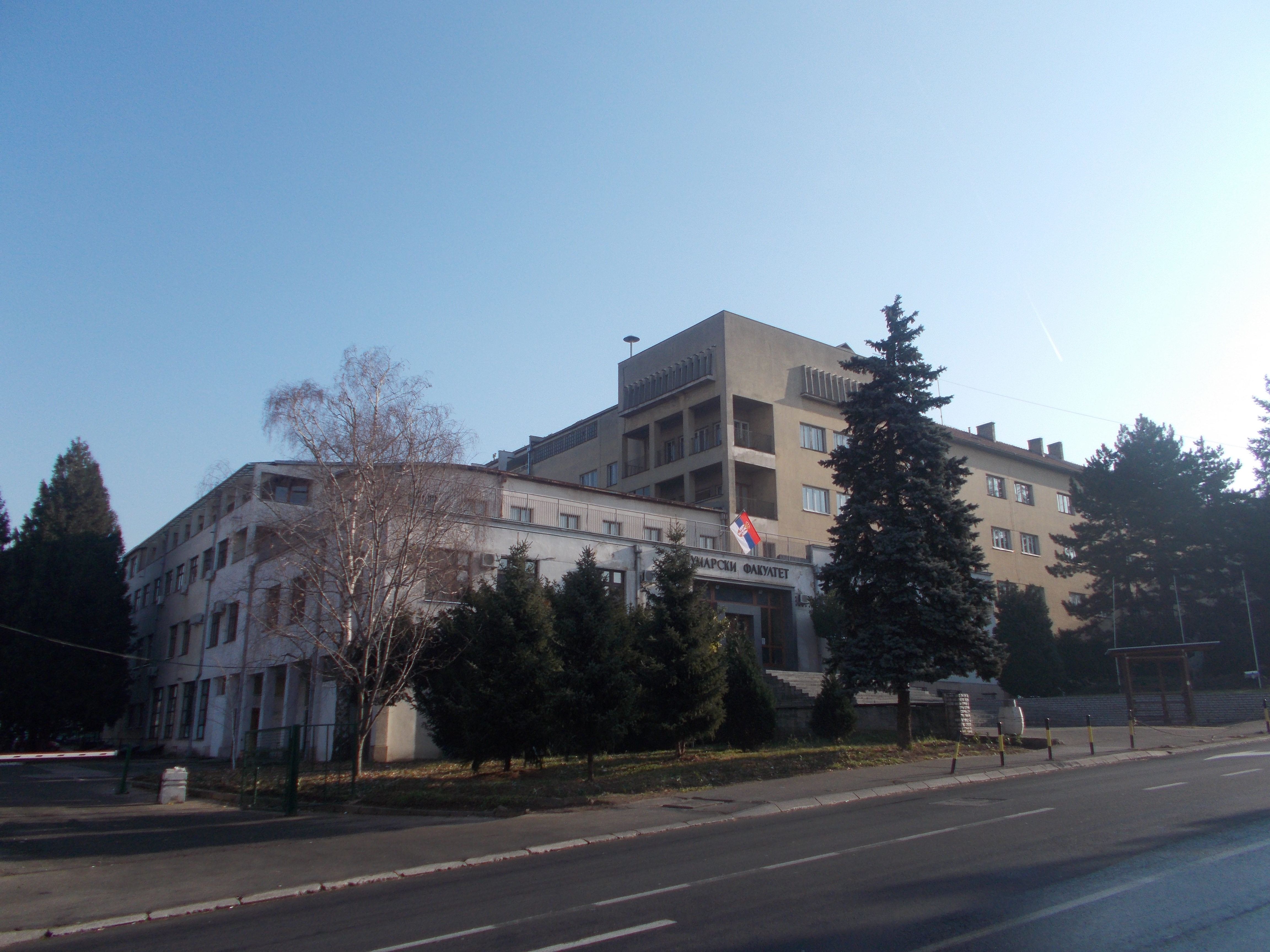 Building of Faculty of Forestry of the University of Belgrade.